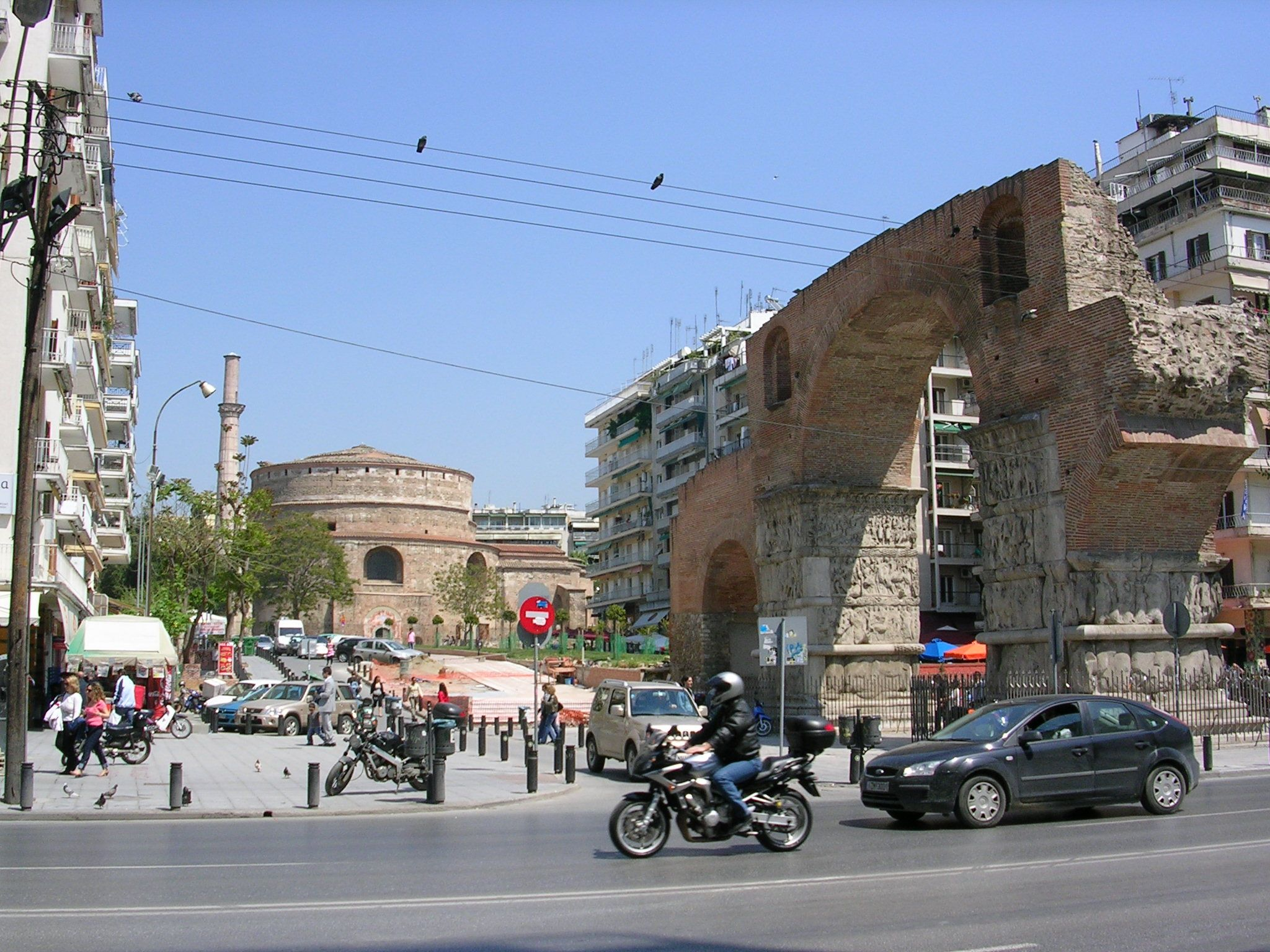 Thessaloniki Arch and tomb of Galerius